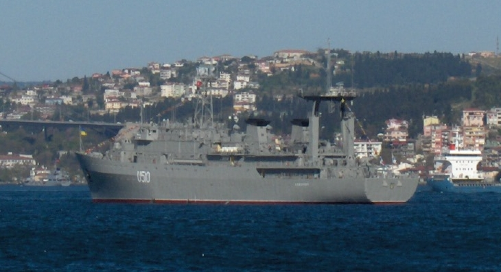 Ukrainian command ship U510 Slavutych at anchor in the Bosphorus; Istanbul, Turkey.